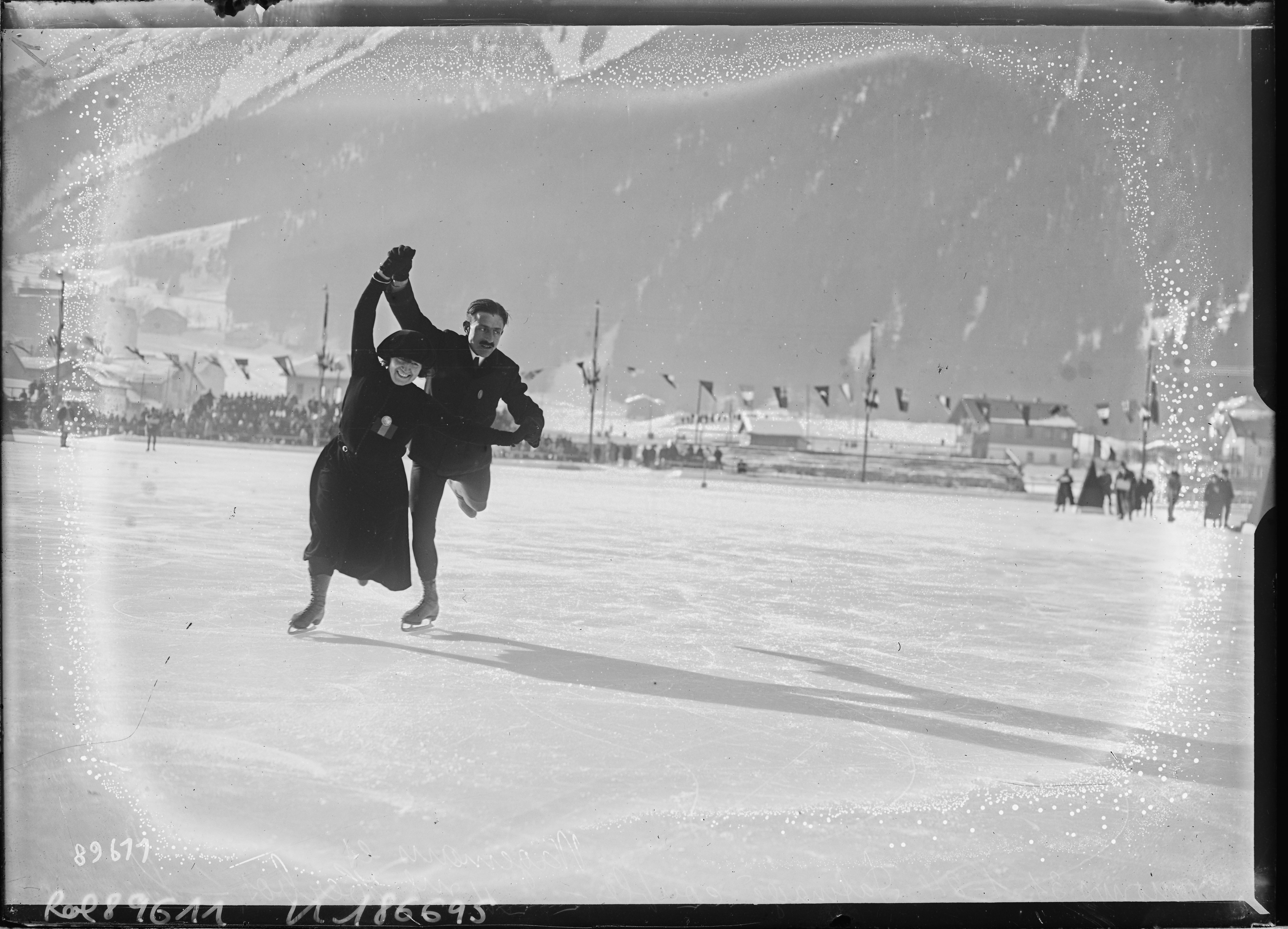 This an image of pair figure skaters Georgette Herbos and Georges Wagemans figure skating at the 1924 winter olympics.